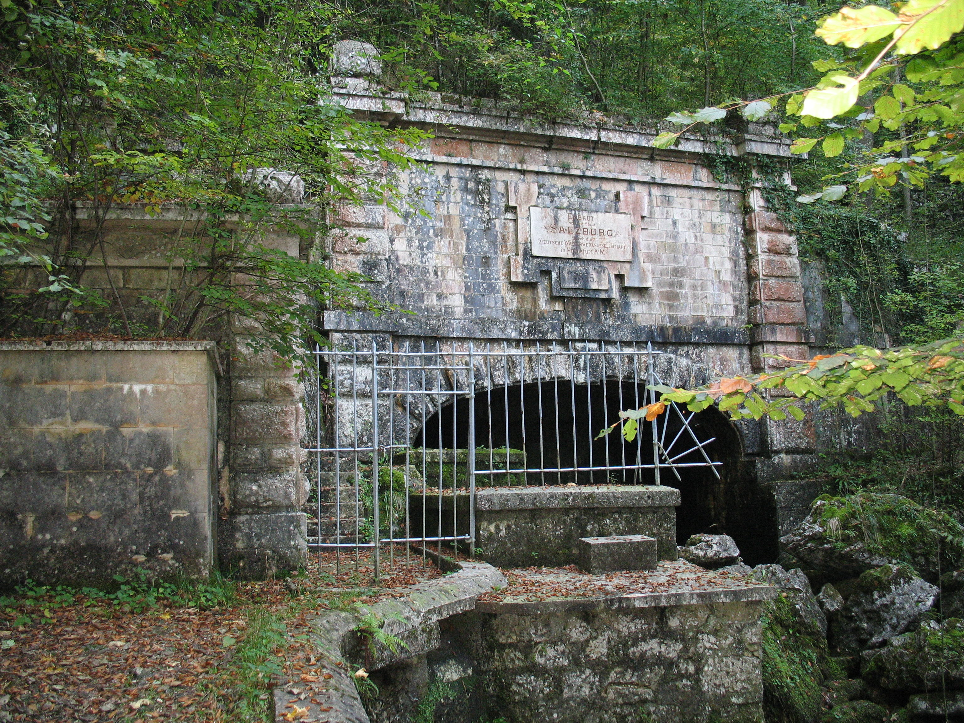 The so called “Fürstenbrunnen” near Fürstenbrunn, Salzburg. Source of the Glan, which joins the river Salzach near the city of Salzburg.